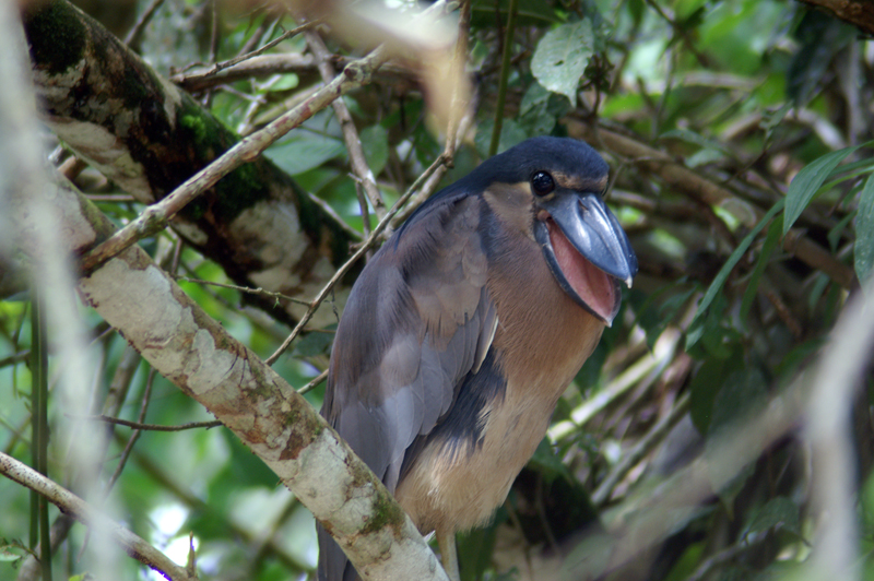 Boat-billed Heron, Southern Boat-billed Heron